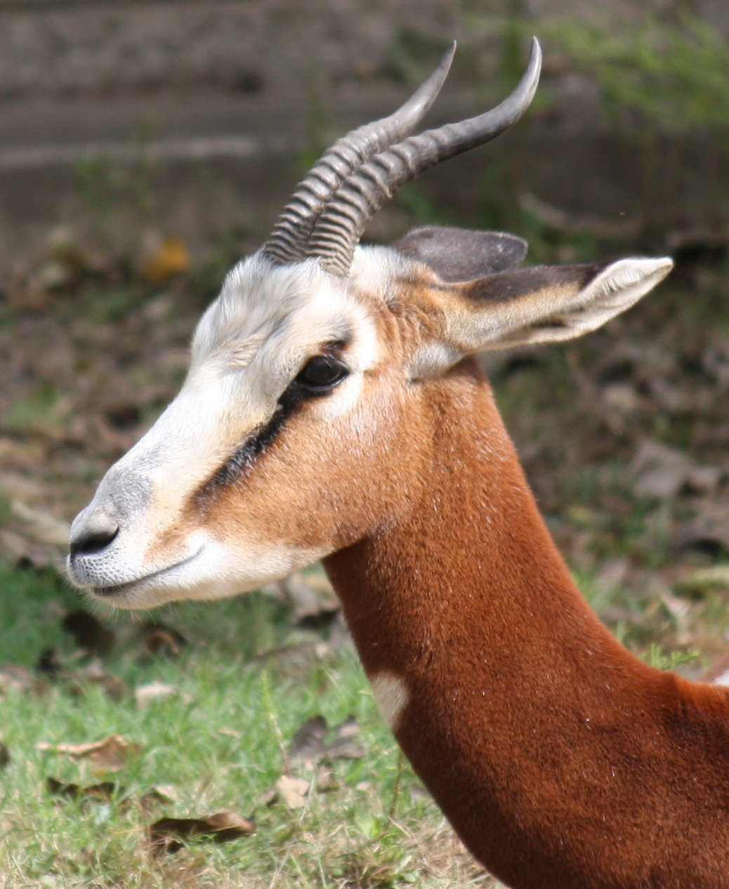 Mhor Gazelle Gazella dama mhorr at Louisville Zoo